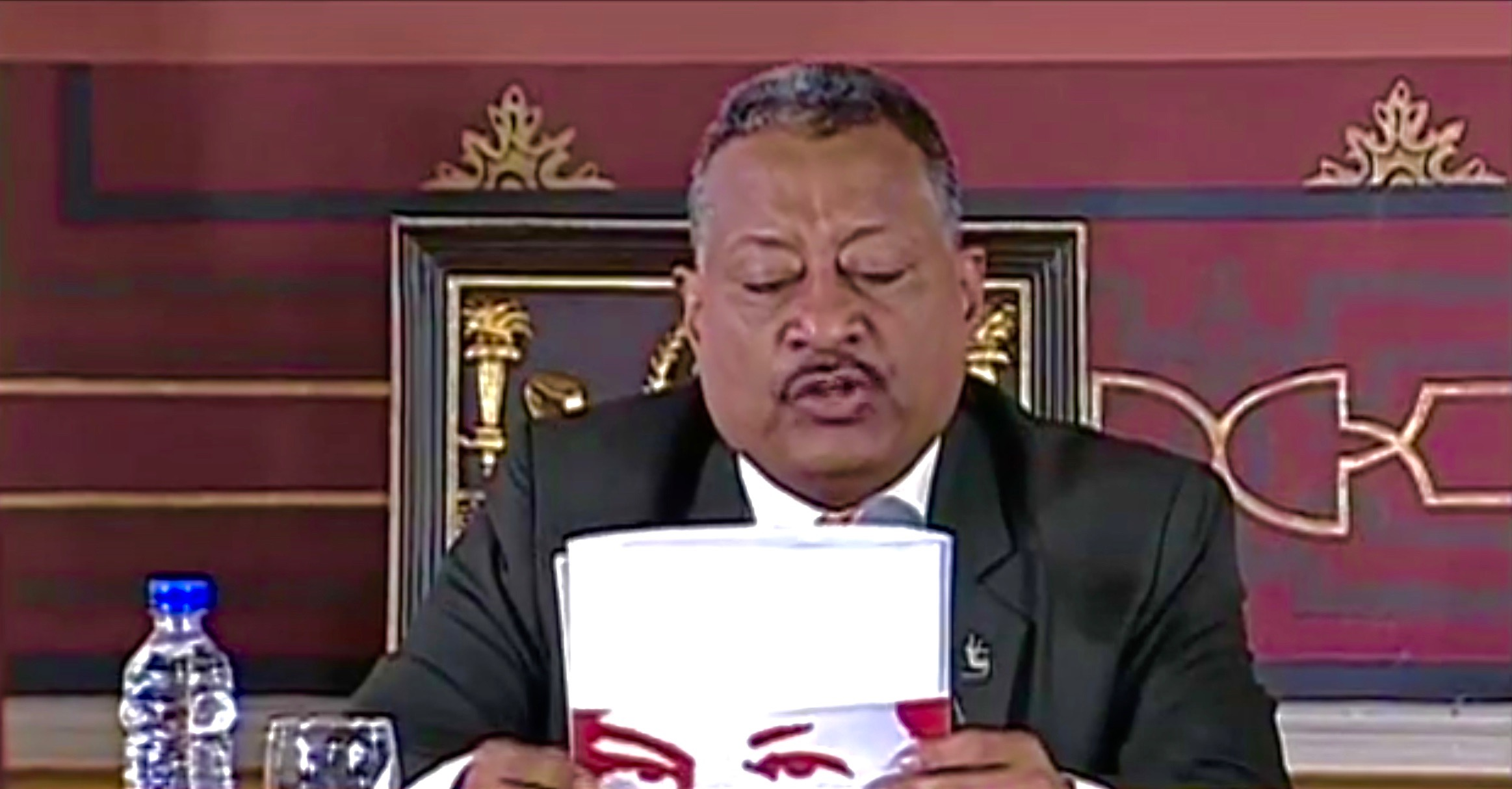 Fidel Vasquez reading from a folder bearing Chávez eyes during a Venezuelan Constituent Assembly session, with the stylized eyes of Hugo Chávez being a common Bolivarian propaganda tactic.